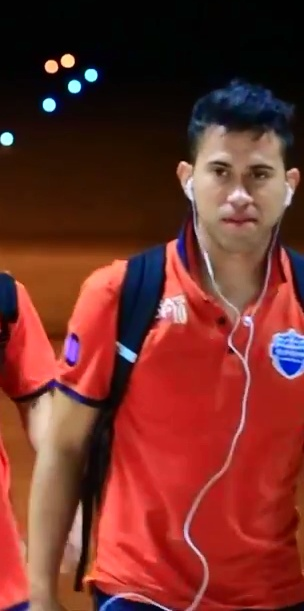 Javier Patino at Buriram Airport